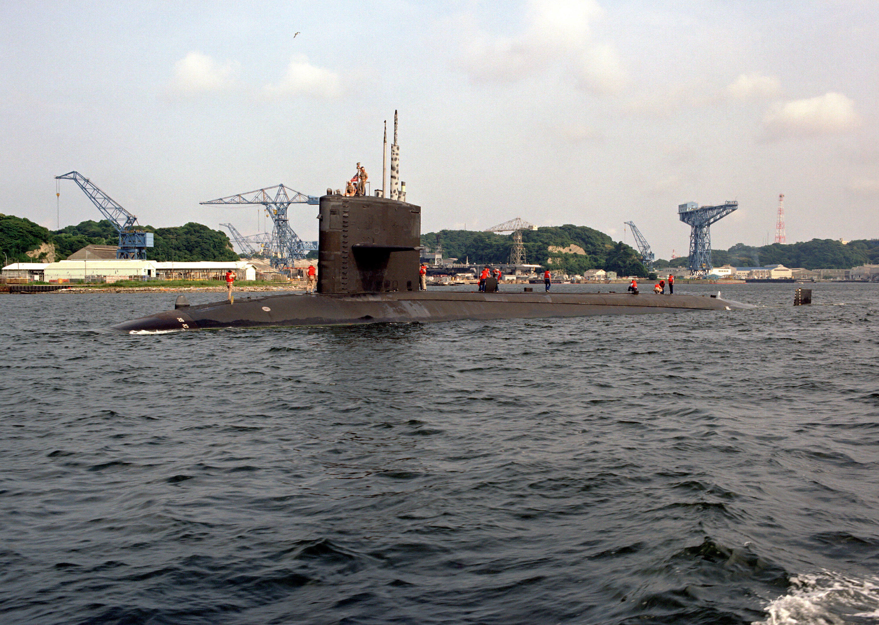 Port bow view of the nuclear-powered attack submarine USS DRUM (SSN 677) entering port.